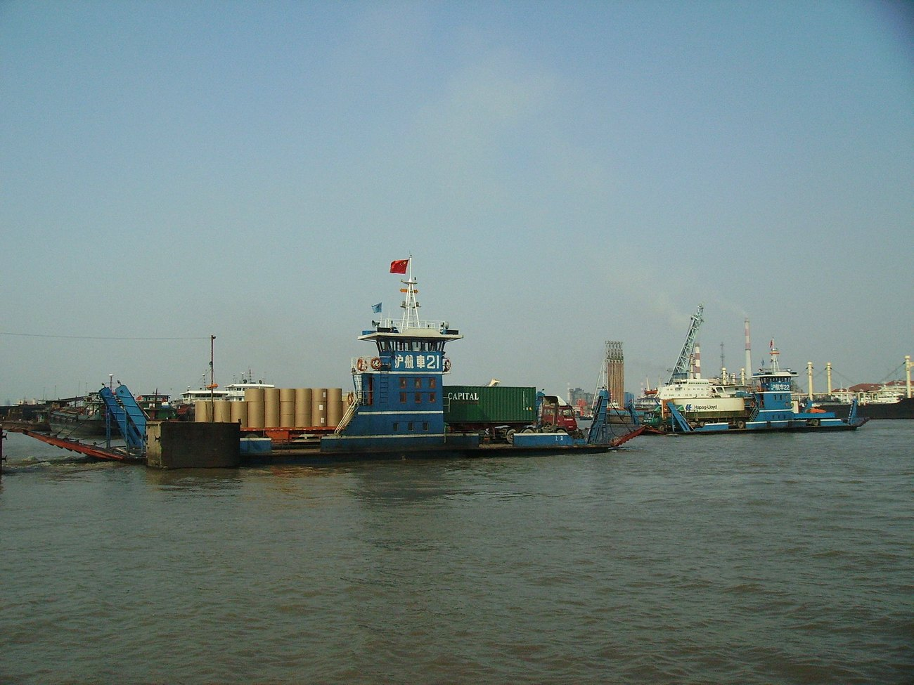 Nenjiang Ferry